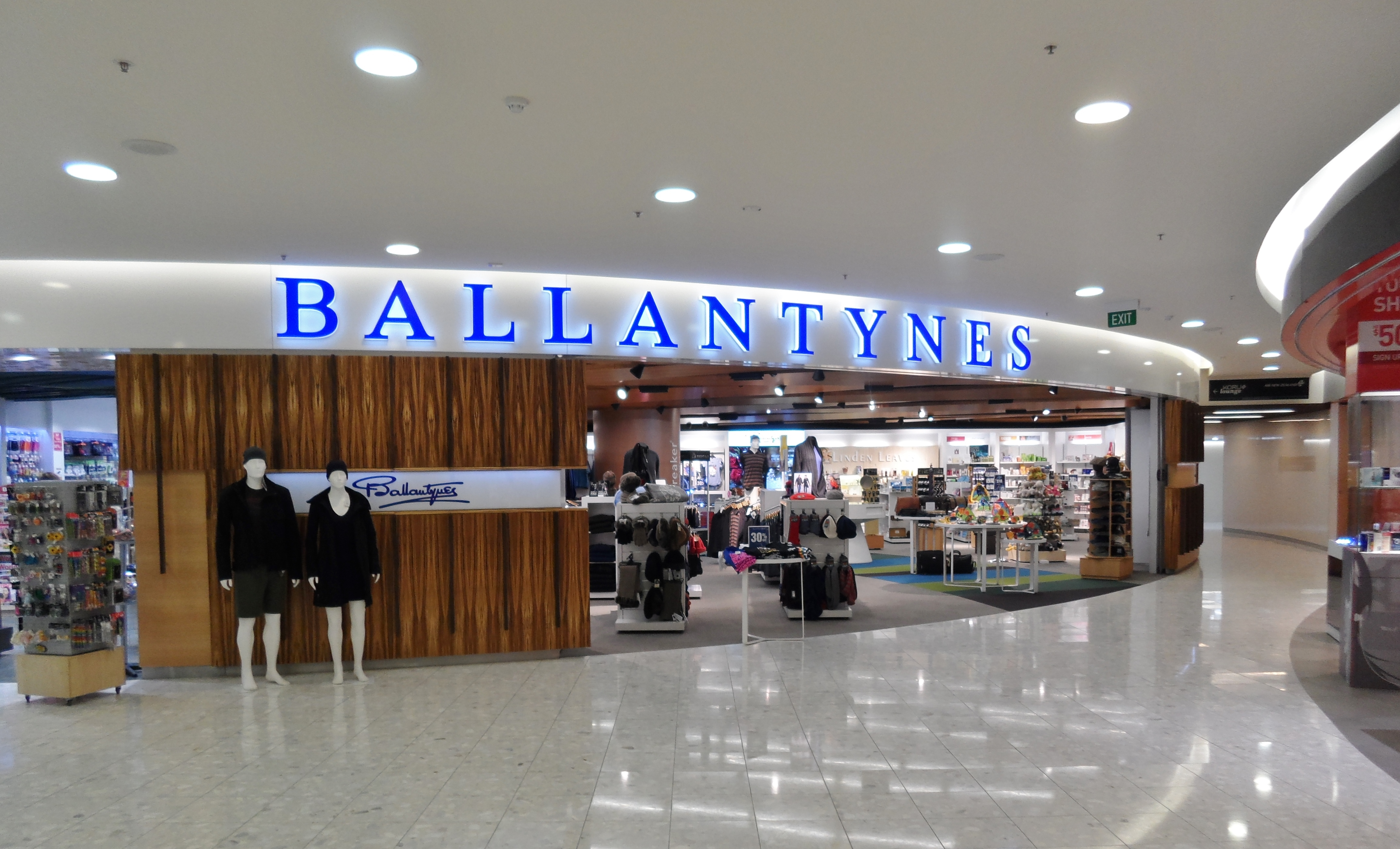 The Christchurch International Airport duty free gift shop of New Zealand department store Ballantynes in 2013.